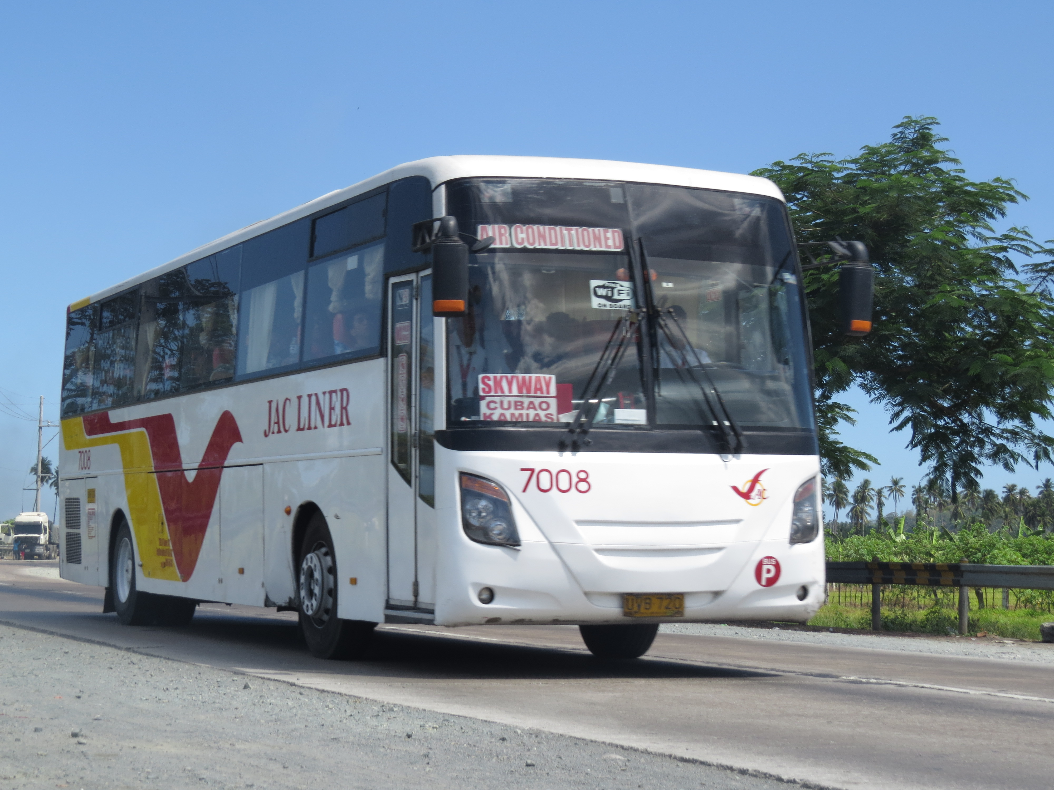 JAC Liner Inc - MAN 753 16.290 Bodywork: Almazora Motors Corporation